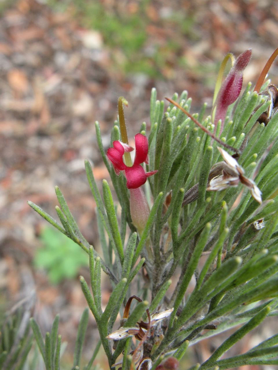 Adenanthos x cunninghamii, Australian National Botanic Gardens, Canberra